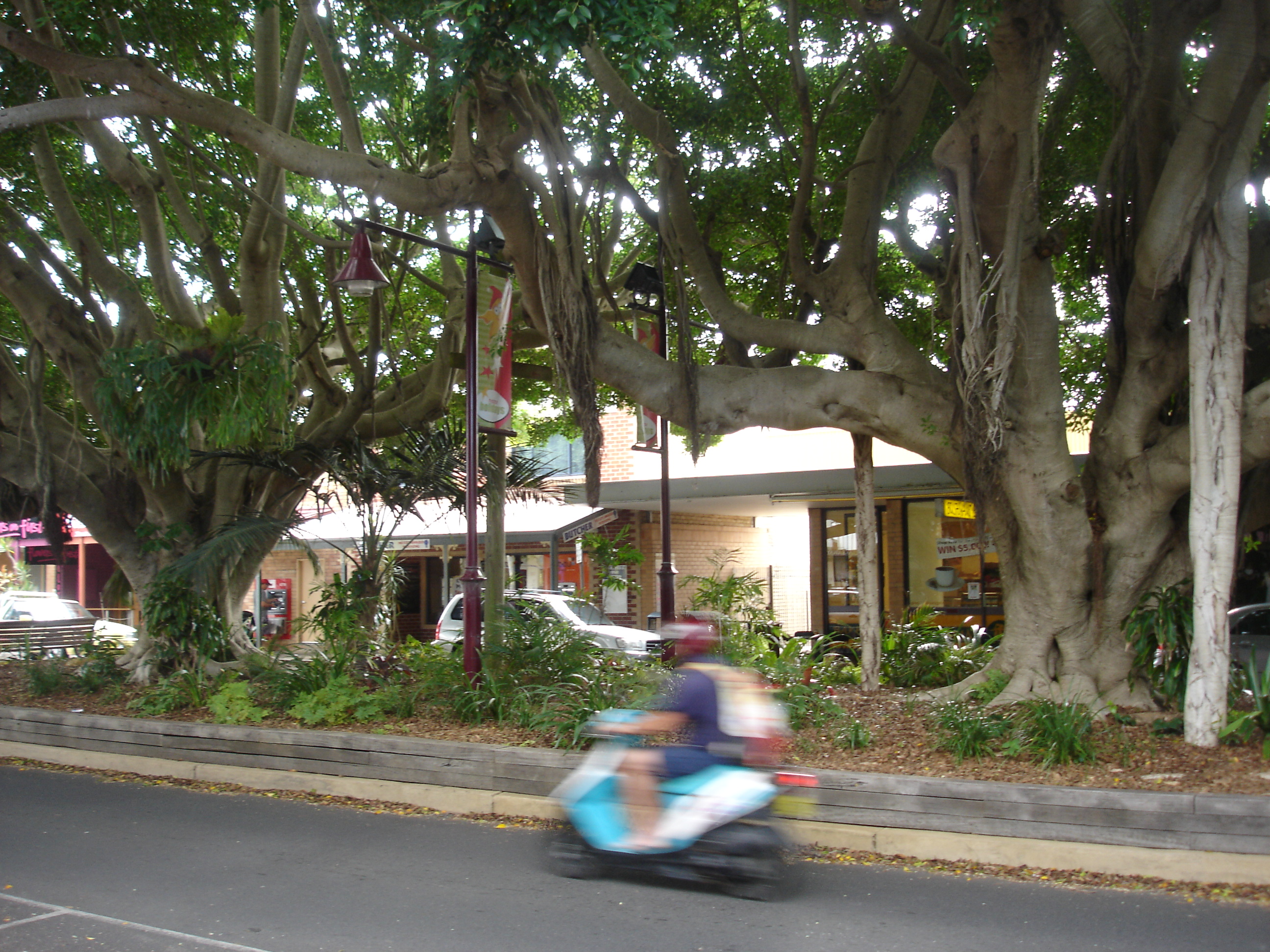 The main street of Sawtell with large feature trees in the median.